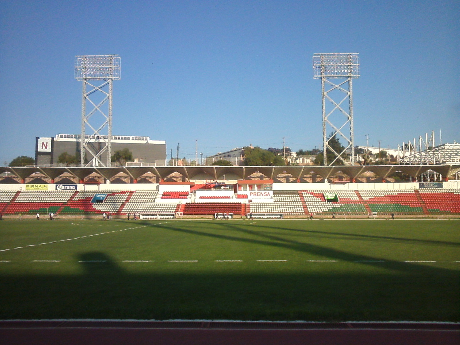 Carlos Vega Villalba Stadium of Zacatecas main stand in 2015, newly installed seats and lights, and the luxury and press box can be seen